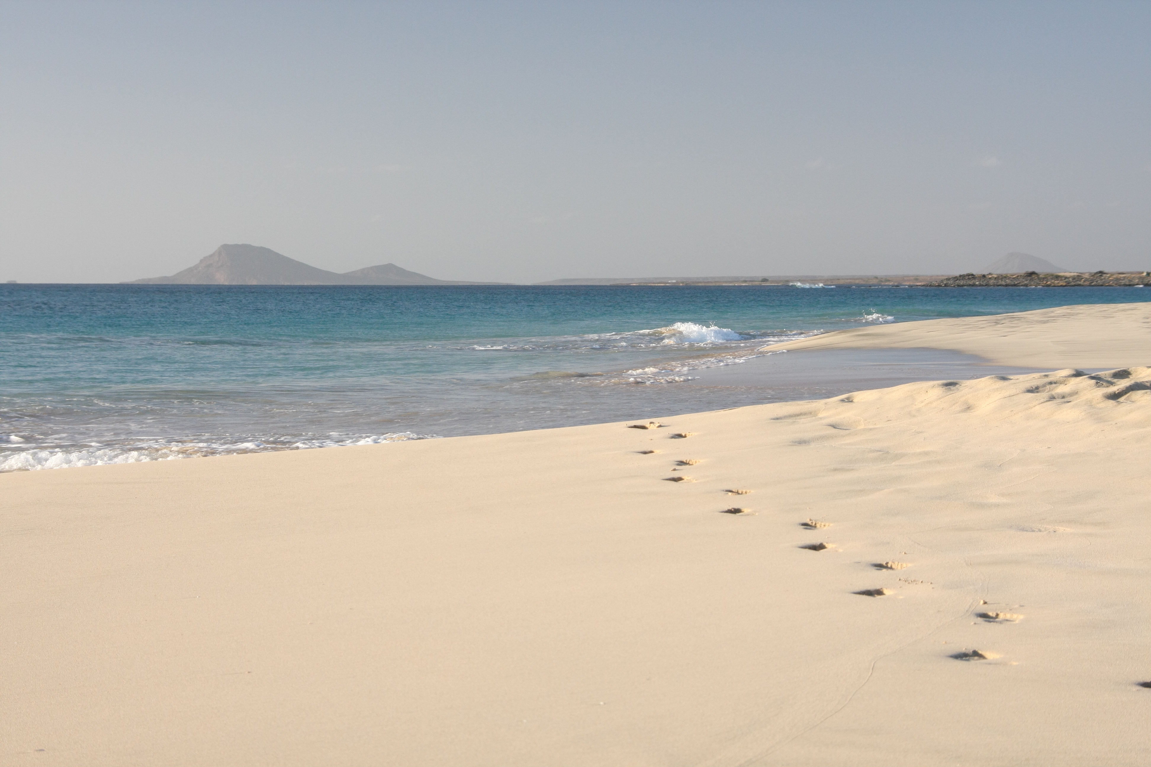 Footsprints in the sand (Santa Maria, Sal, Cape Verde)